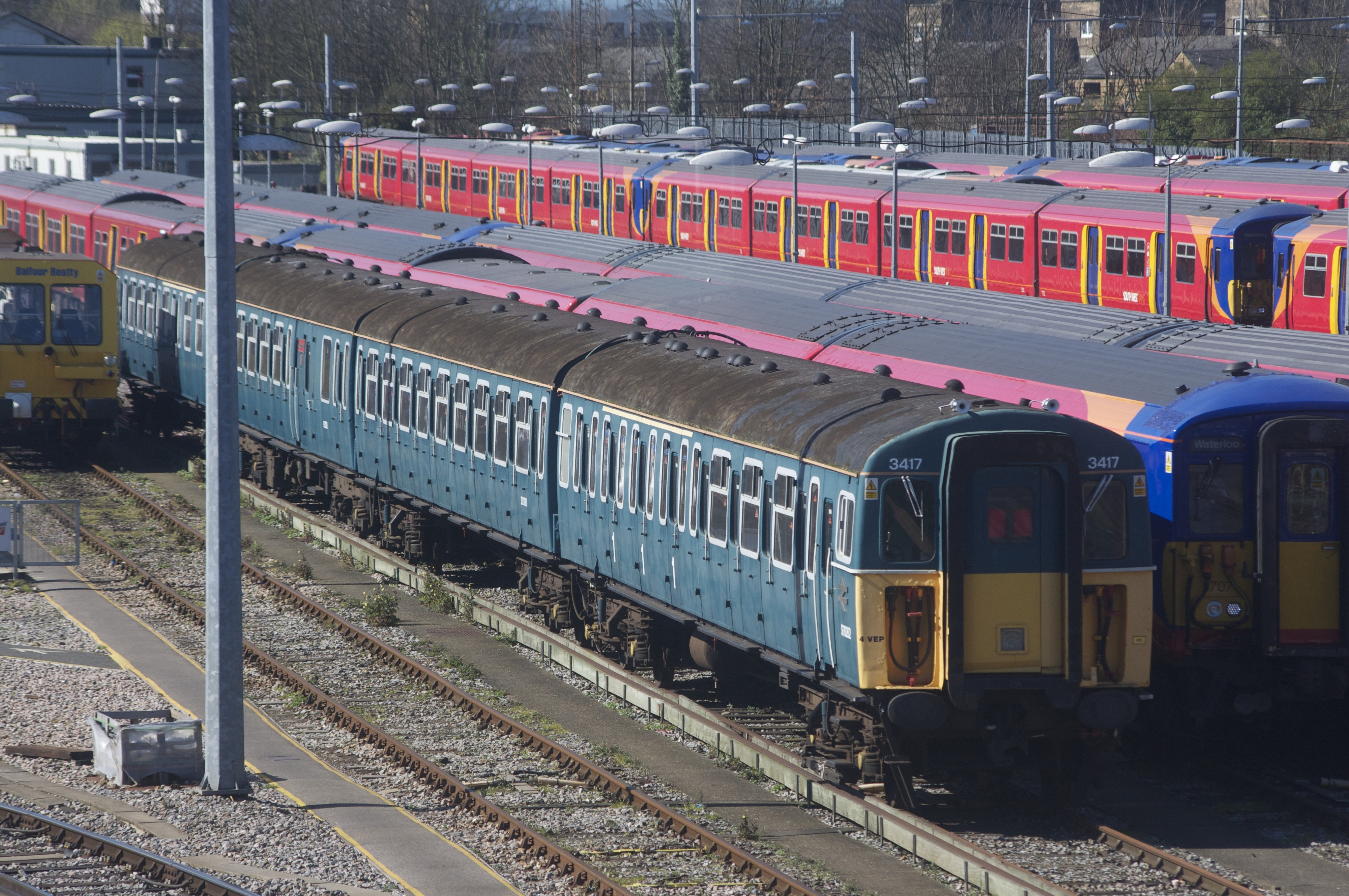 3417 (423417) stands in Clapham Yard.